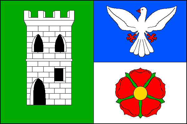 Municipal flag of Holubov village, Český Krumlov District, Czech Republic.